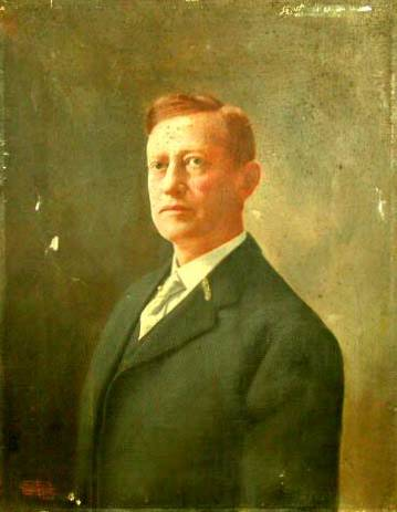 Portrait of Tennessee Governor Malcolm R. Patterson (1861–1935) by Knoxville artist C. Mortimer Thompson